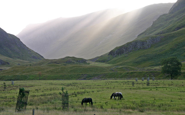 Grazing, Dalness, Glen Etive Highland ponies on rough grassland by Dalness